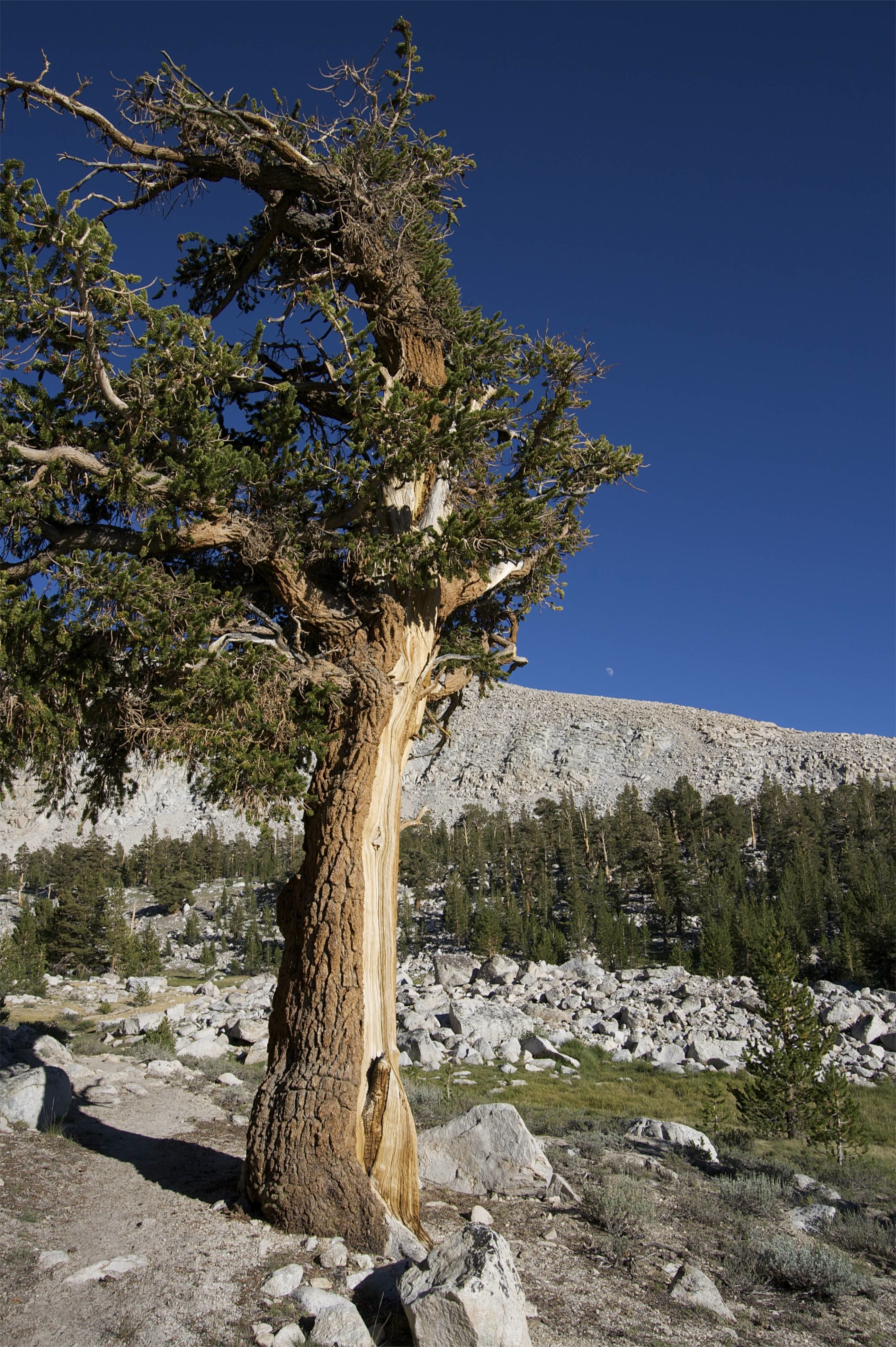 Foxtail pine Pinus balfouriana in the Sierra Nevada Mountains of California